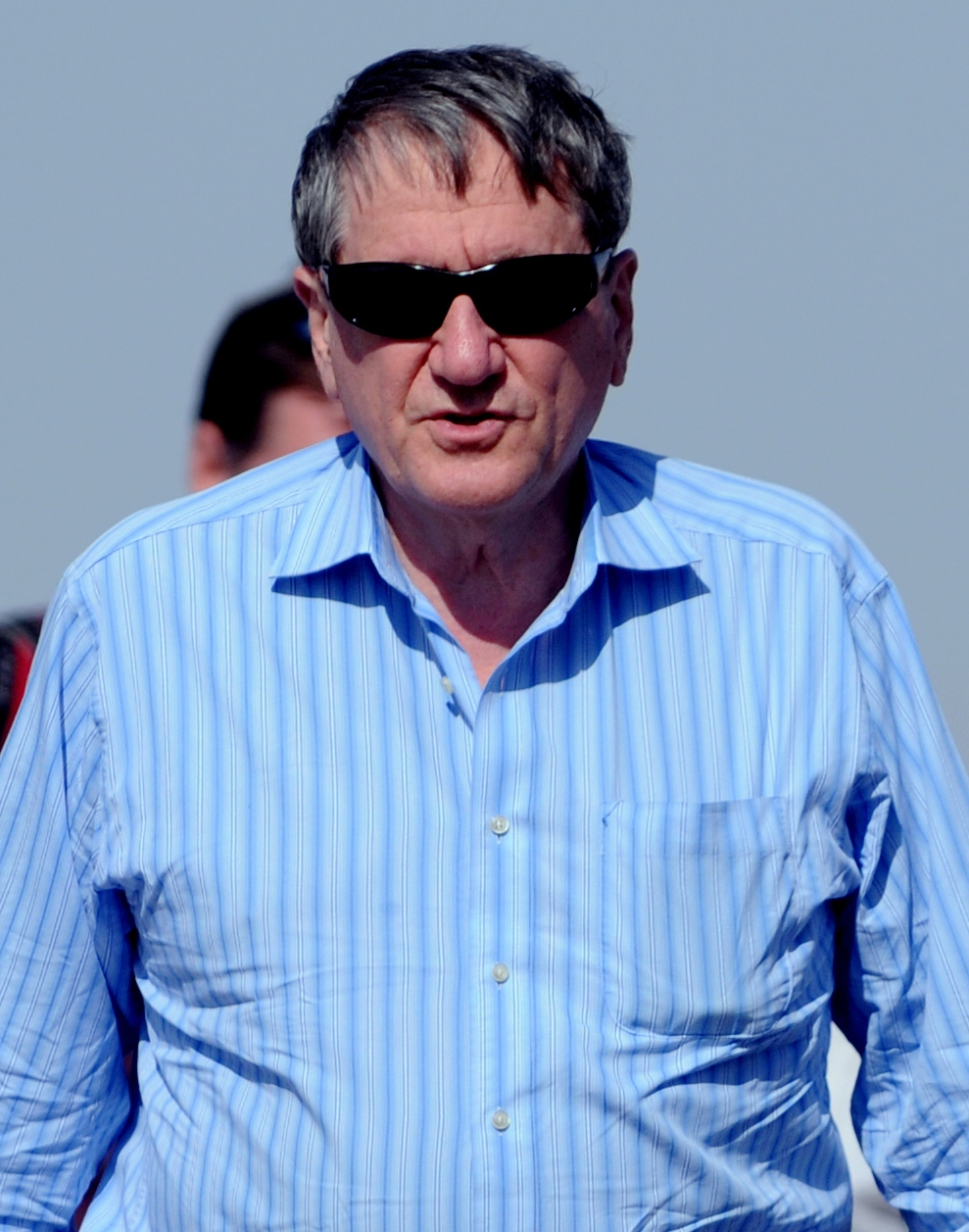 Richard Holbrooke, the U.S. special representative to Afghanistan arrives at Herat Airport in Herat, Afghanistan. During his trip, Holbrooke was briefed by leaders of the coalition forces on the overall security of western Afghanistan.